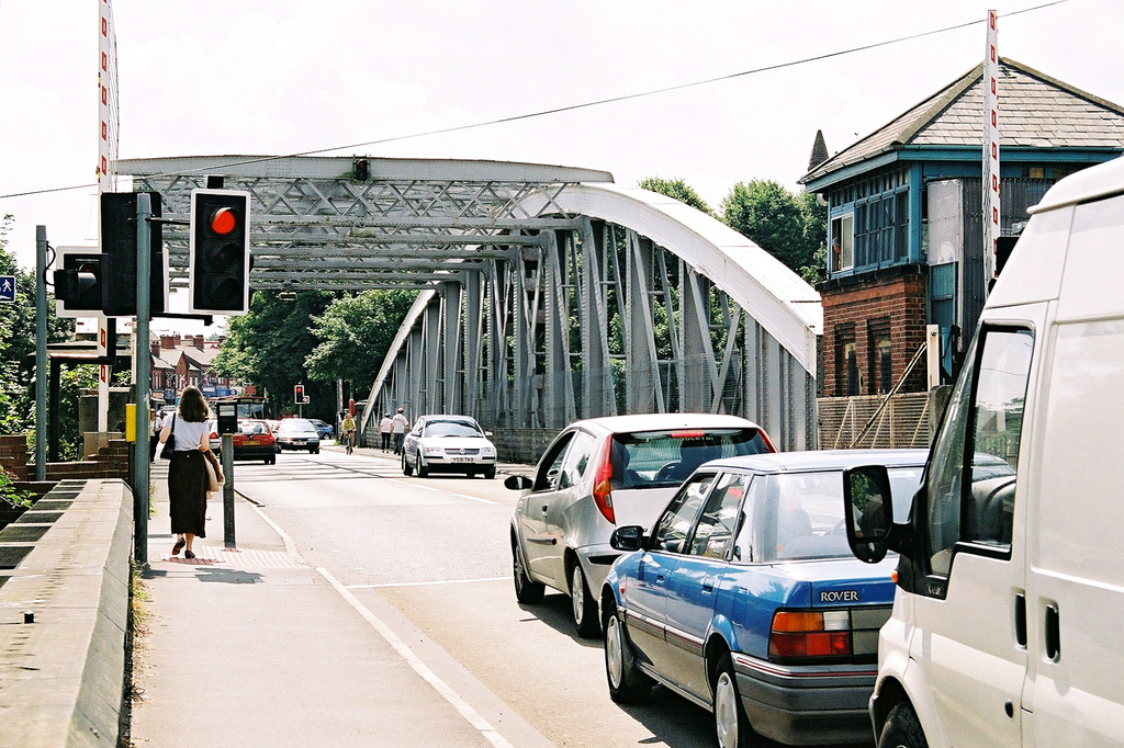 Photograph by Guy Hatton, July 9 2003.